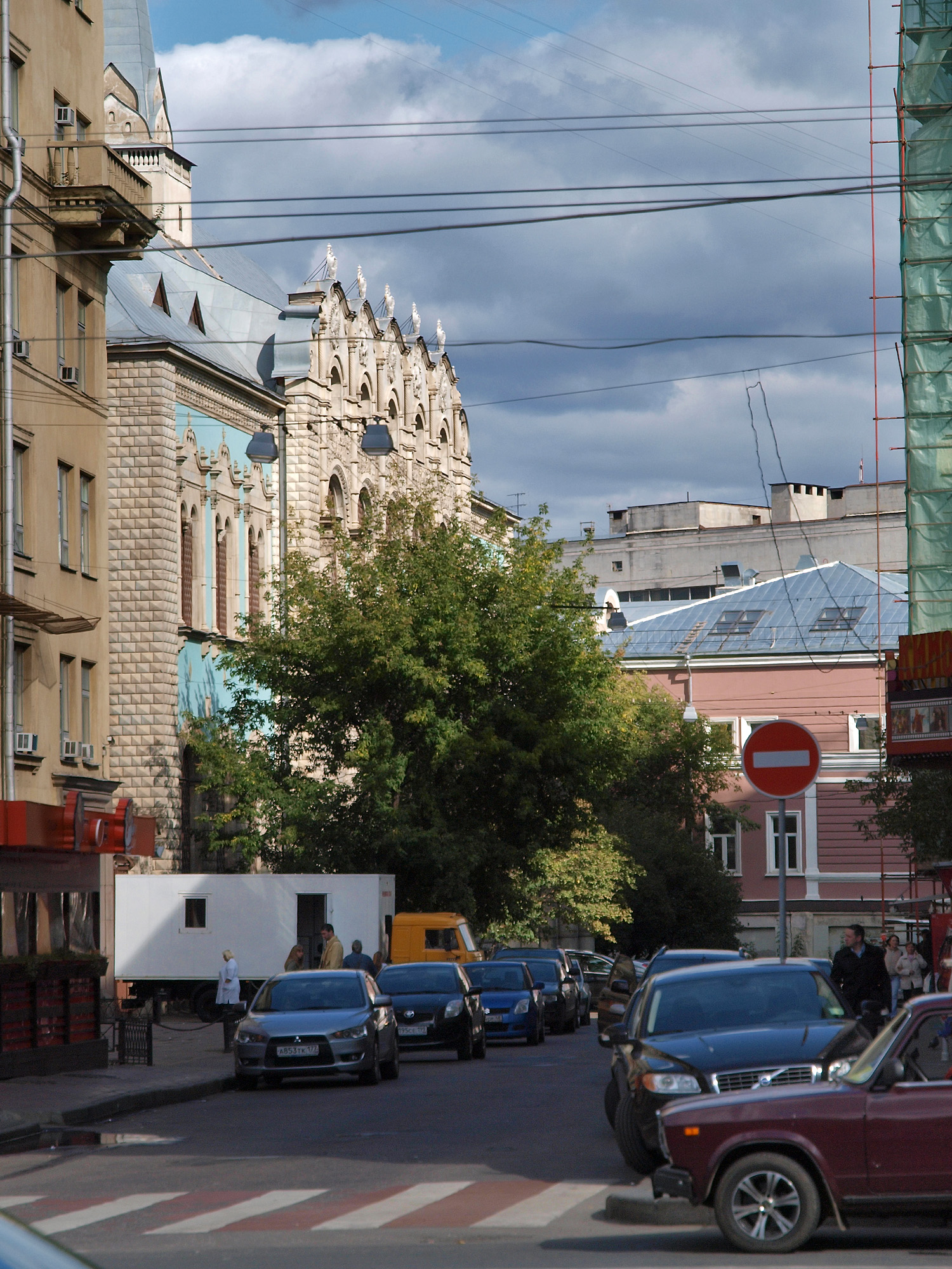 Nastas'yinsky lane, Moscow.